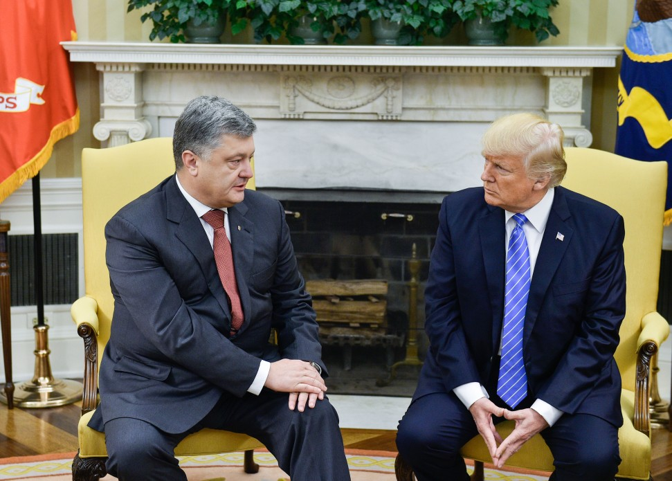 Working visit to the United States of America